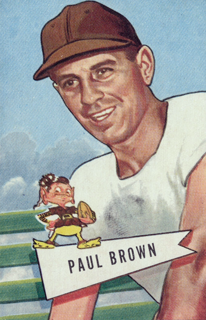 Paul Brown, American football head coach, on a 1952 football card